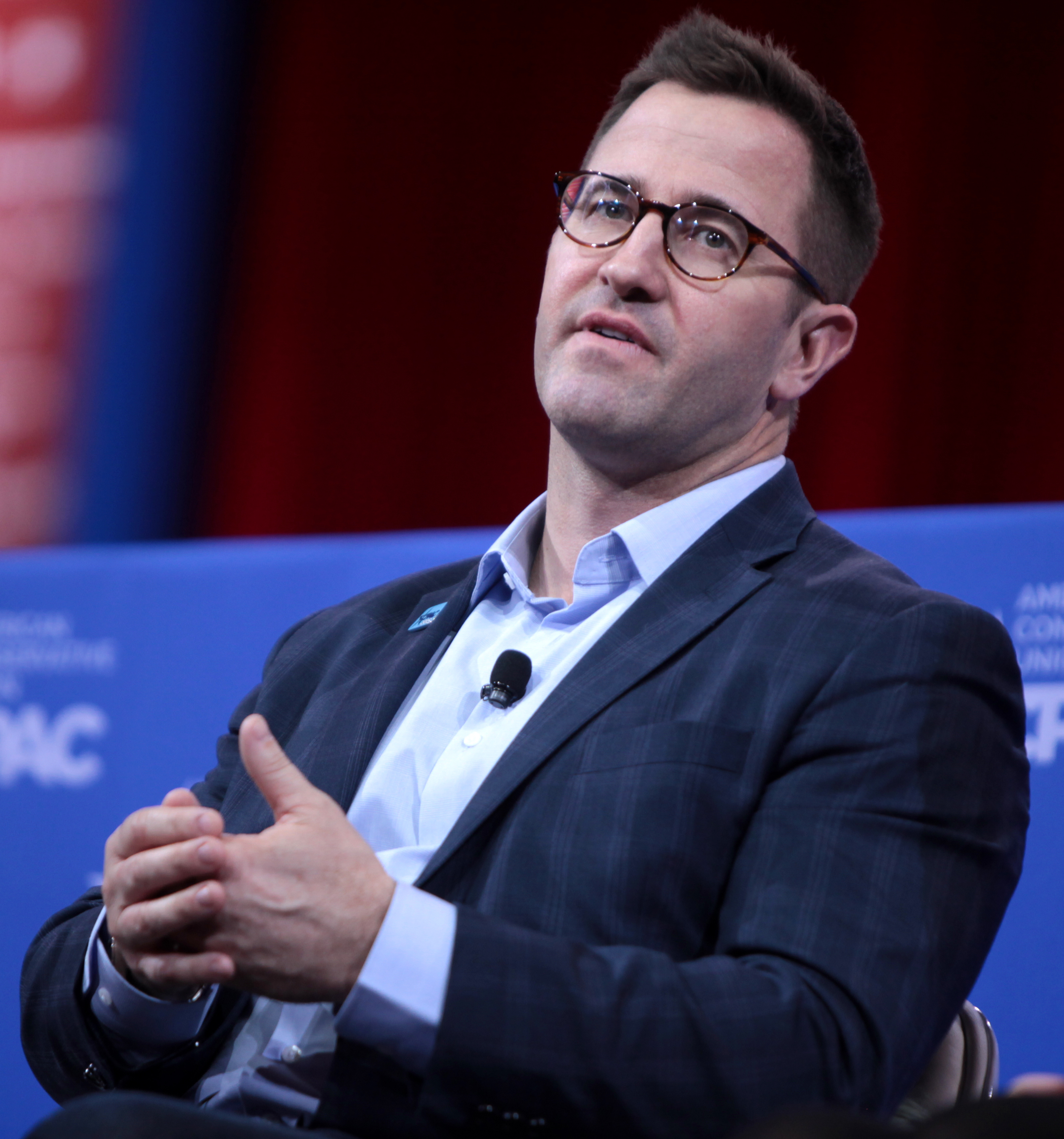 Ned Ryun speaking at an event in Washington, D.C.